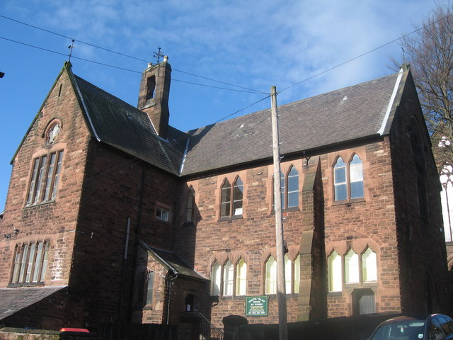 St Mary's School, Woolton The original school building in St Mary’s Street, Woolton was opened in 1869 by Father John Placid O’Brien. The children brought in pennies to pay for their schooling and parents supplied slates and books. The building is now Woolton Day Nursery.